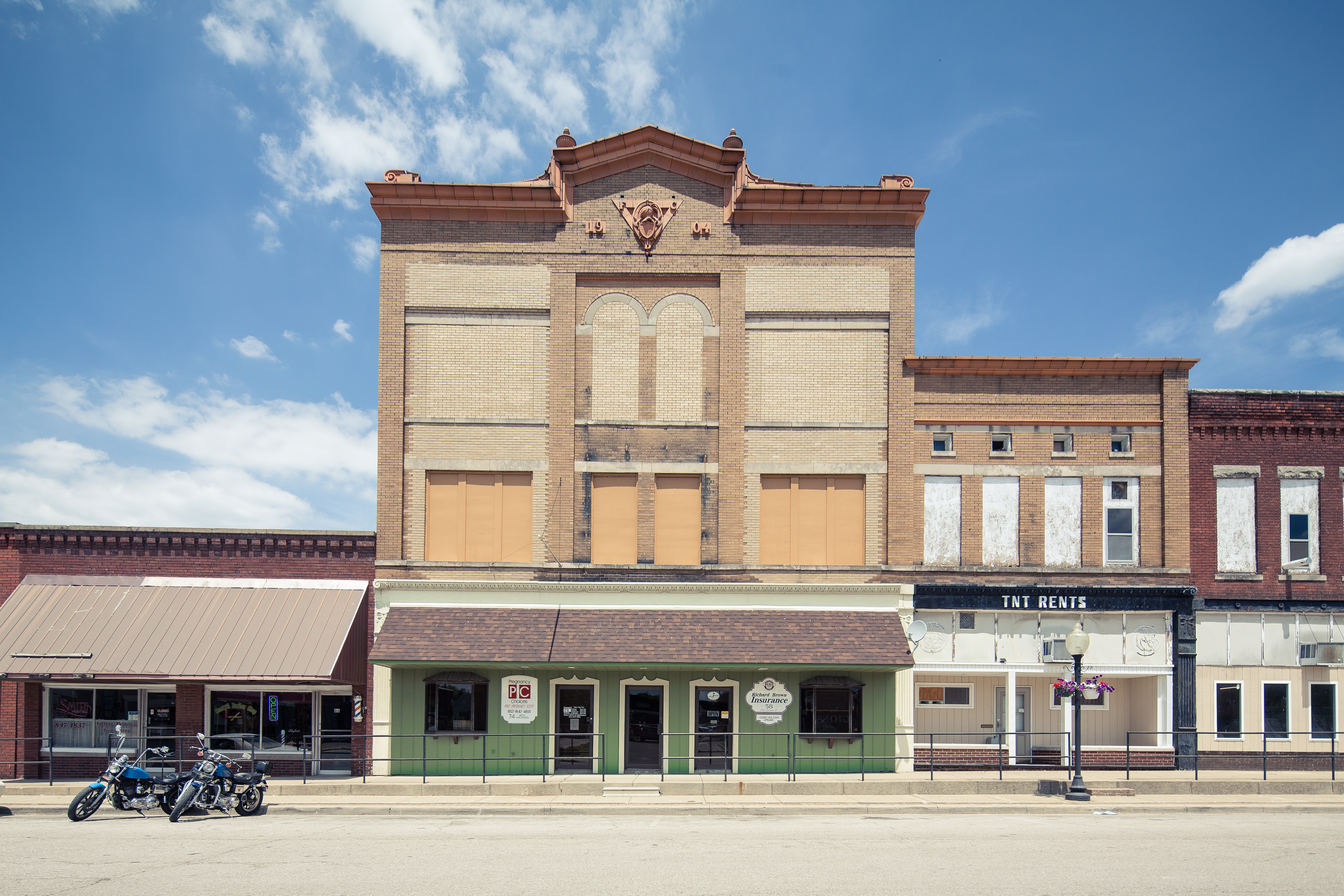 Photo from Small Town Indiana photo survey.